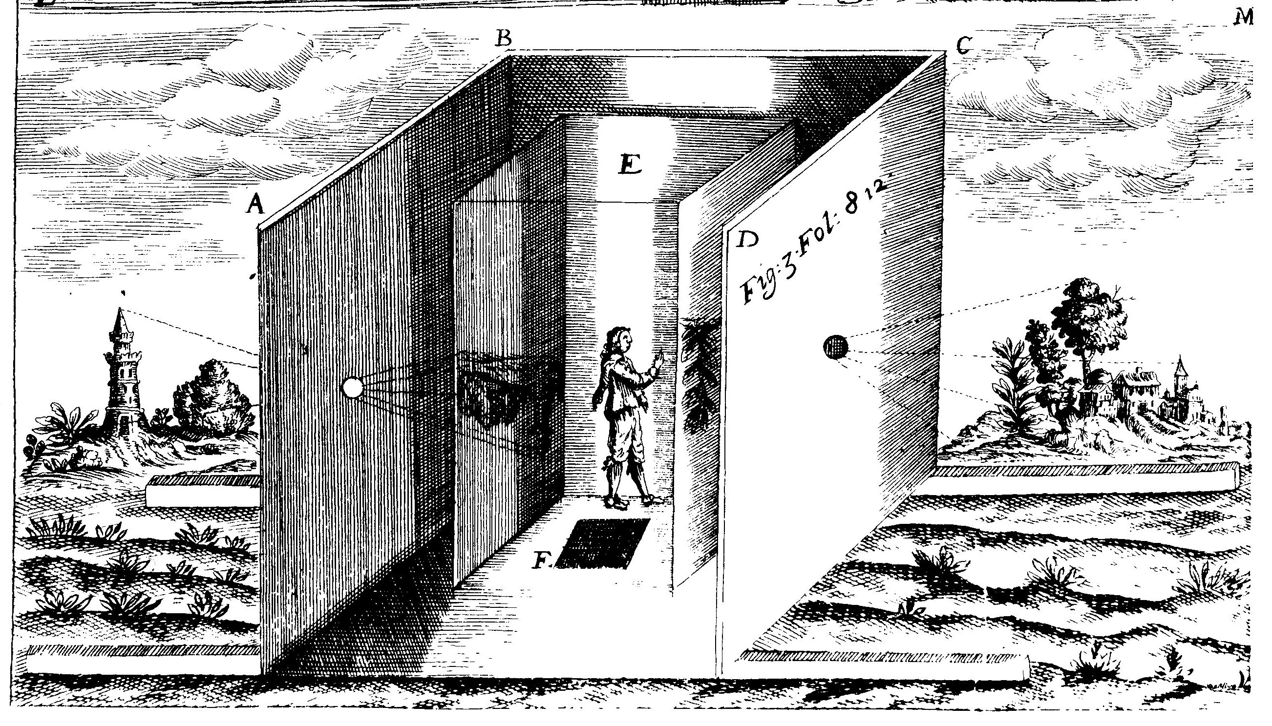 Illustration of "portable" camera obscura in Kircher's Ars Magna Lucis Et Umbra (1646)